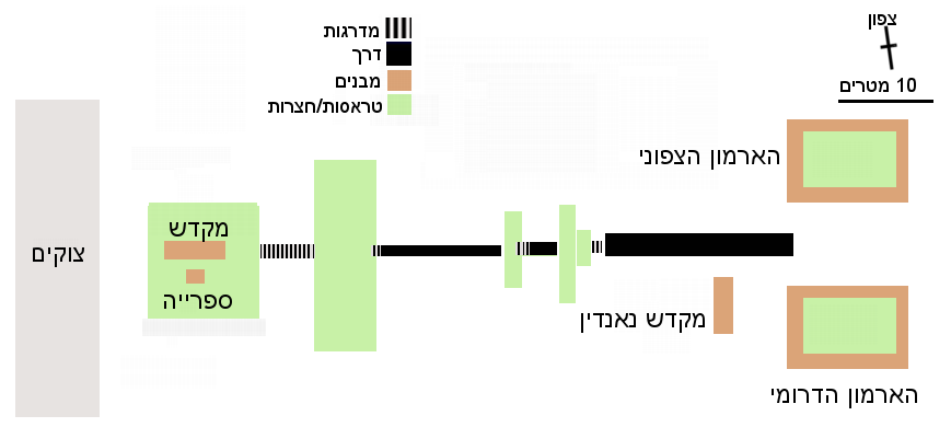 Wat Pho